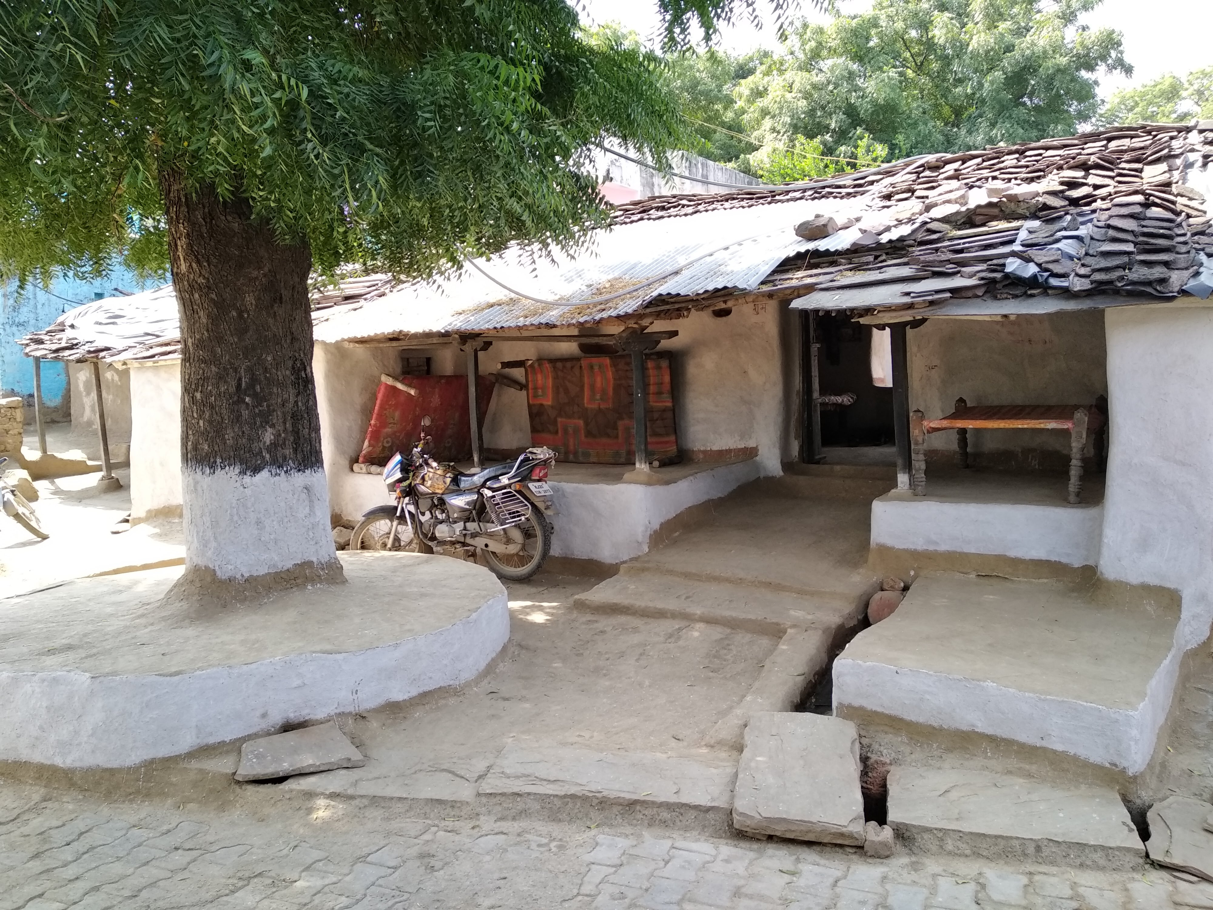 This image shows Village chachorni